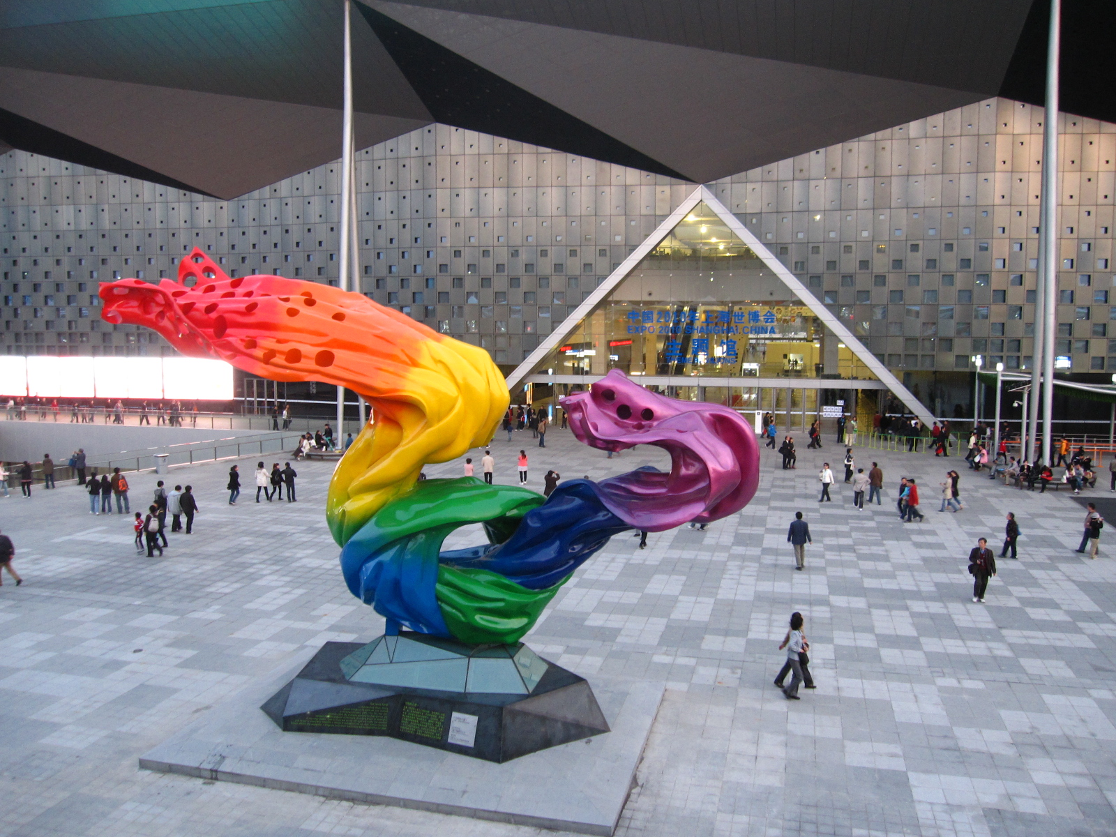 "Flying Dream" sculpture in front of Theme Pavilion which is made for volunteers of Expo 2010